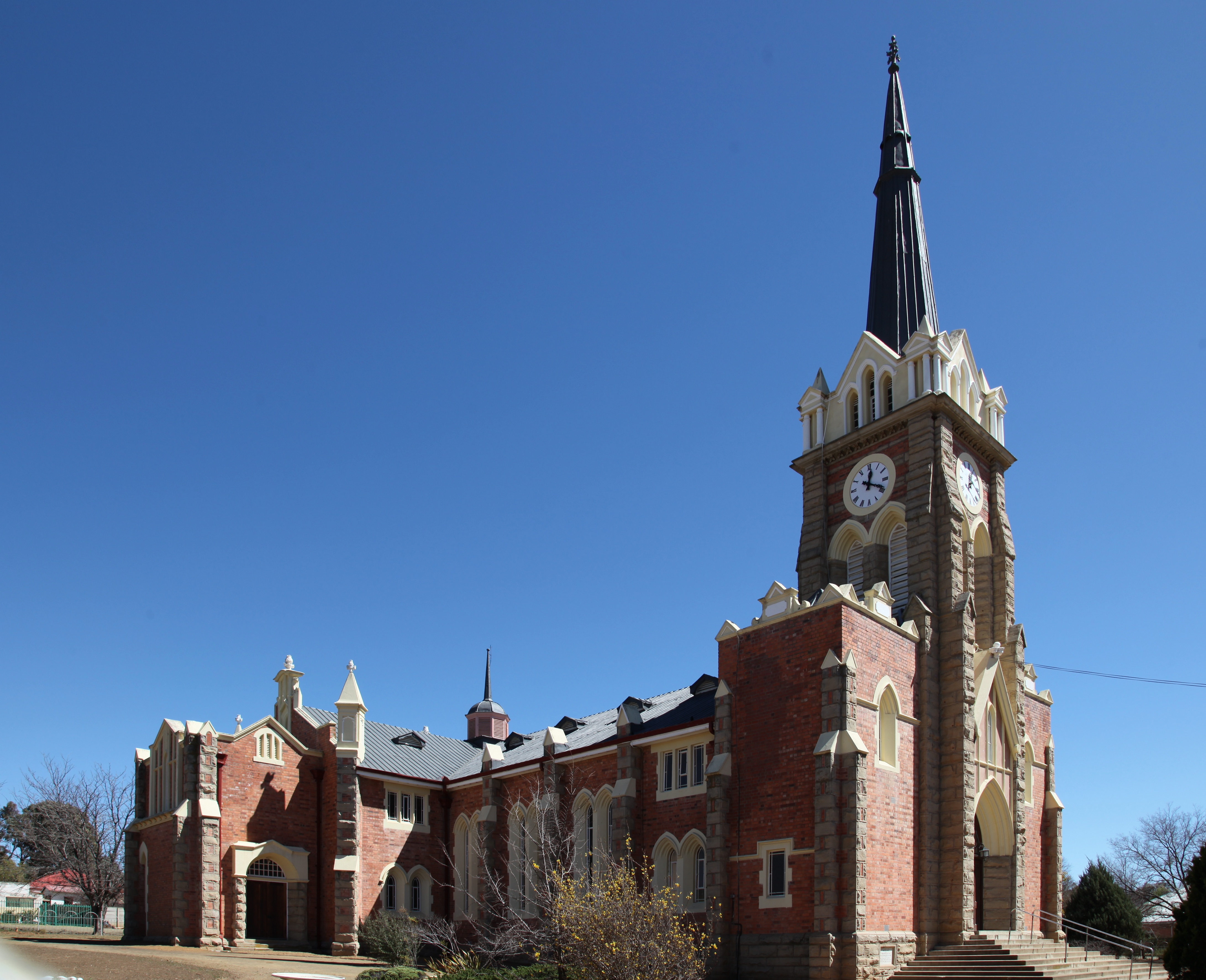 NG Church in Molteno - Eastern Cape - South Africa (perspecive corrected)